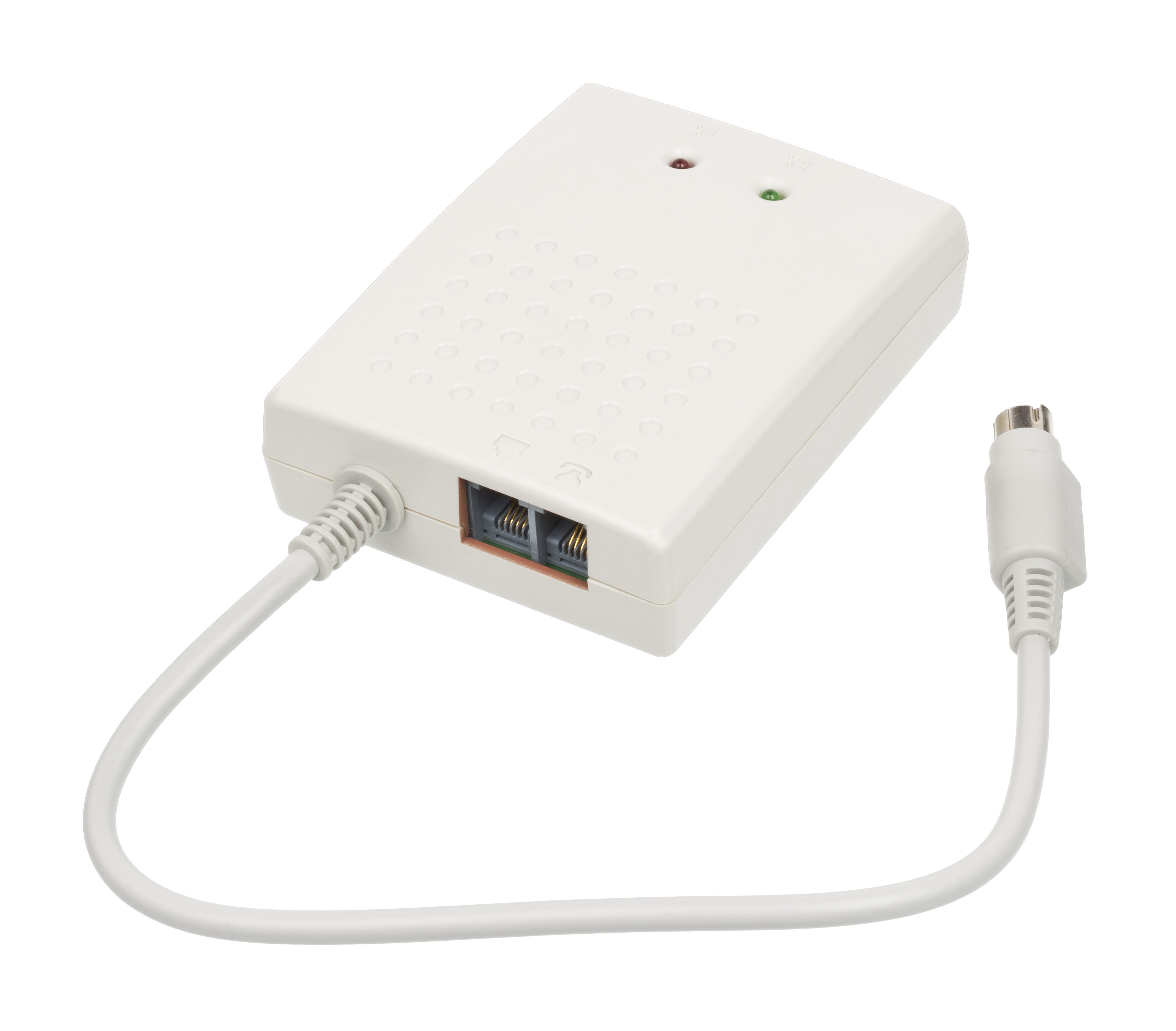 The external dial-up modem for the Apple Pippin, a video game console/computer hybrid that was manufactured by Bandai and released in 1995. This is the Japanese version, the Atmark, that was colored white. The version released in America was called the @WORLD and was colored black. The system was based on the Apple Macintosh computer that was streamlined and focused for playing CD-ROM games.